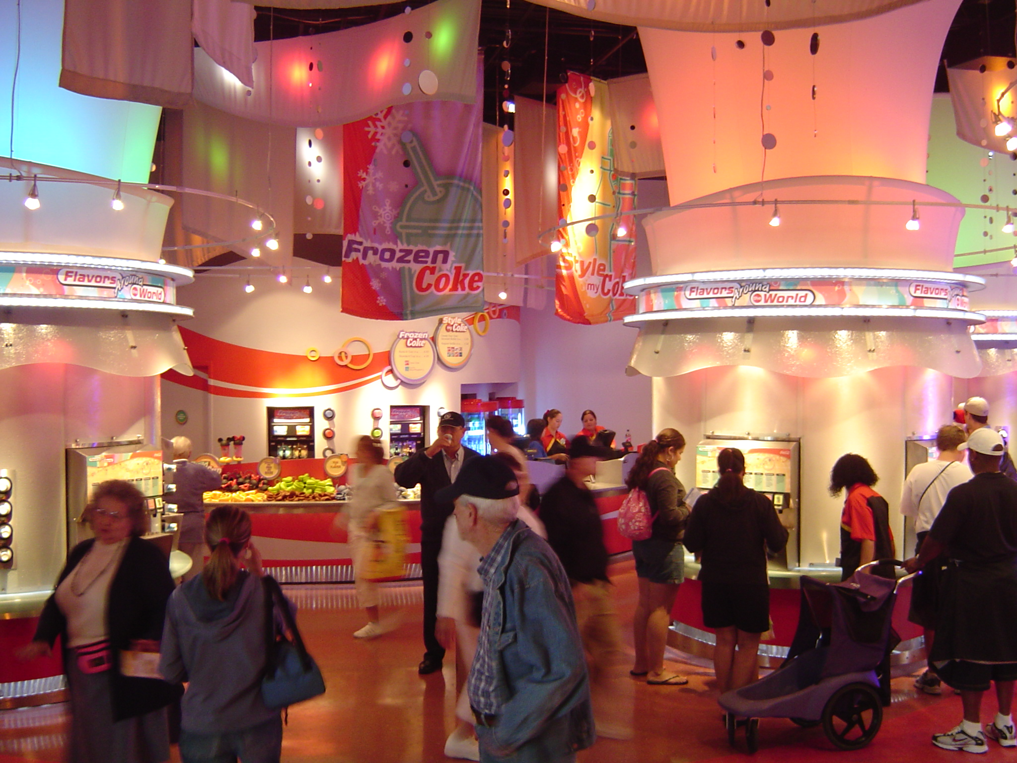 Inside Club Cool at Epcot.